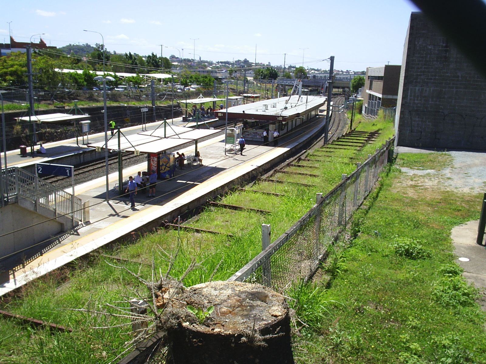 QR Bowen Hills Station looking towards Mayne on 20/10/06 by Qld matt 09:59, 21 October 2006 (UTC)